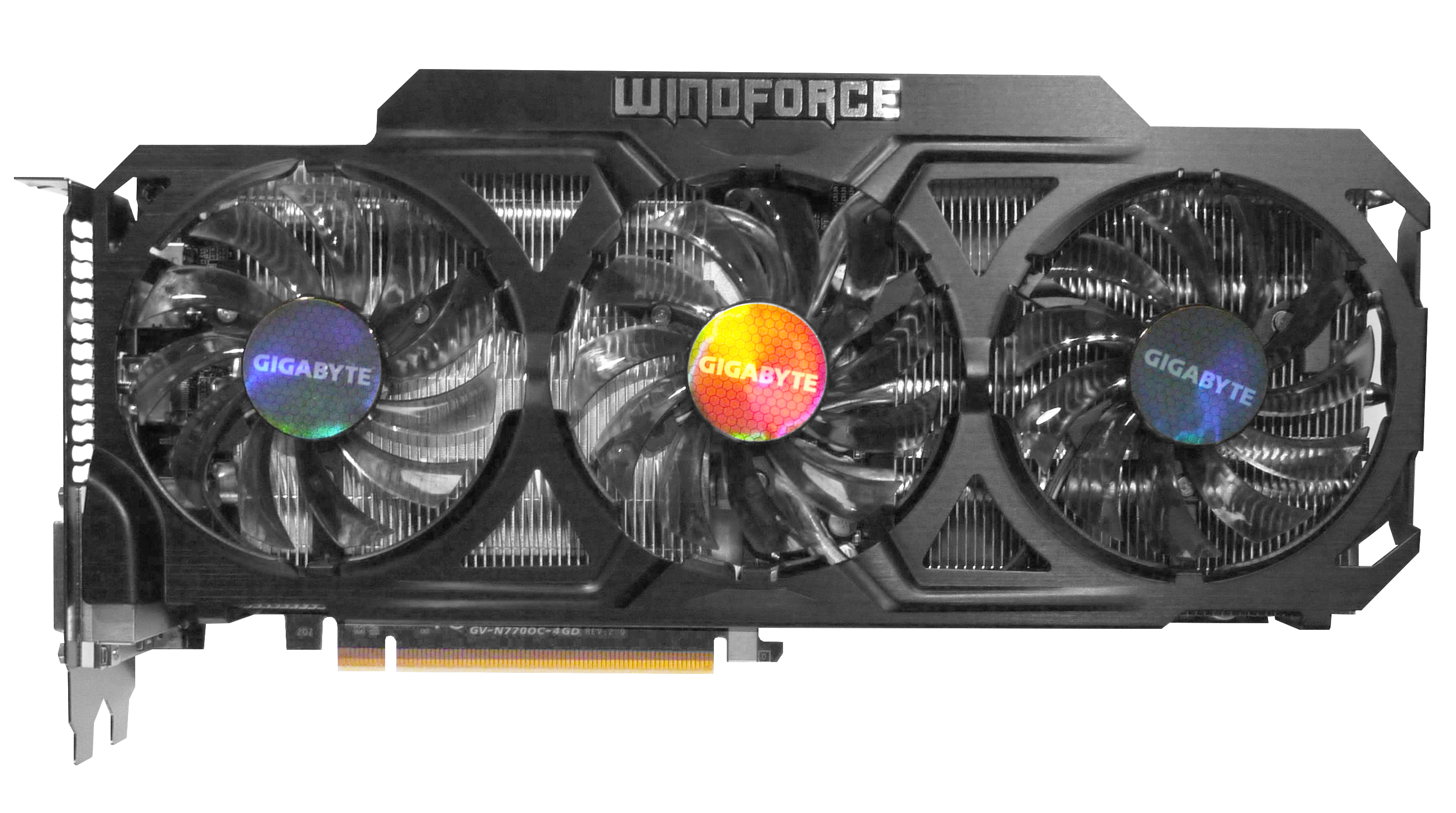 Gigabyte GeForce GTX 770 Graphics Card "GV-N770OC-4GD" Rev 2.0